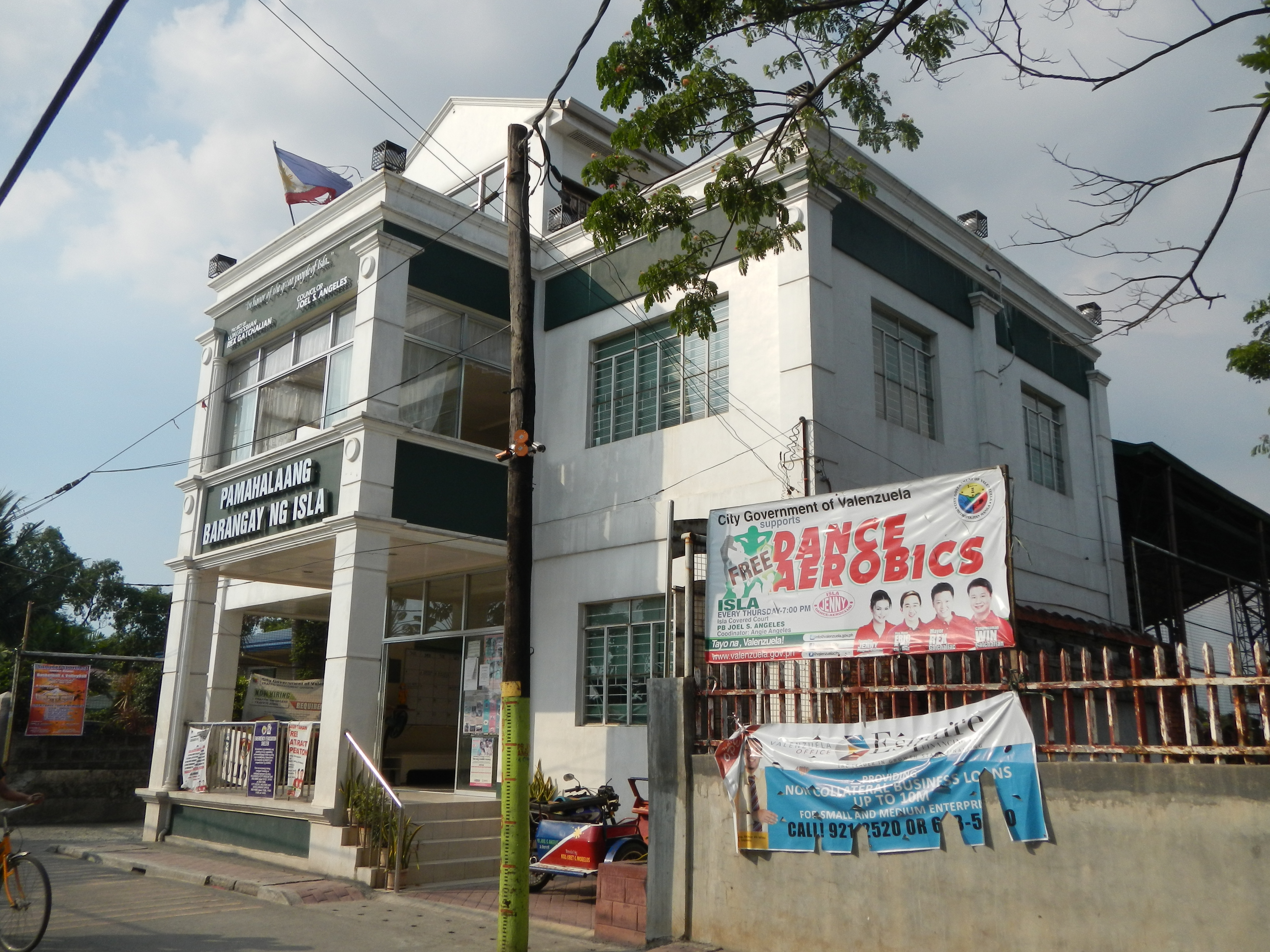 Isla, Valenzuela Valenzuela, Philippines (List of barangays in Valenzuela - (Valenzuela Barangay Hall, Chapel beside and separated by the Welcome road-sign of )Tagalag, Valenzuela - Tagalag Road, cor. Balikatan st., Tagalag Elementary School, Fiesta papers or banderitas surrounding the streets in the just finished Barangay Fiesta, submerged fish ponds, since this ultra-low tide area, is easily inundated 5 to 6 feet in rainy seasons, the Barangay Chapel and Barangay Hall inside a Covered Court, surrounded by breeze of fish ponds, bakawan scenery of Tagalag, Valenzuela, Valenzuela, Philippines (List of barangays in Valenzuela- Valenzuela).